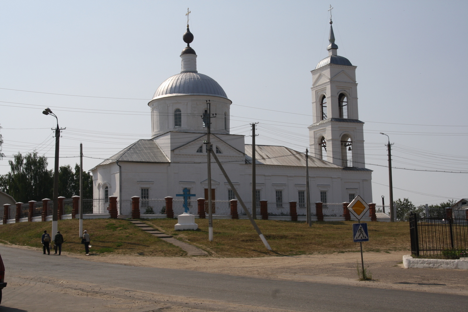 Church in Morki (Mari El, Russia)